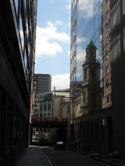 City of London: reflections in Shoe Lane While Holborn Viaduct crosses Shoe Lane, the office on the right reveals by way of reflection an otherwise unseen tower.